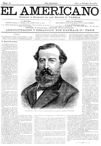 Portada del diario El Americano 21 de diciembre de 1874